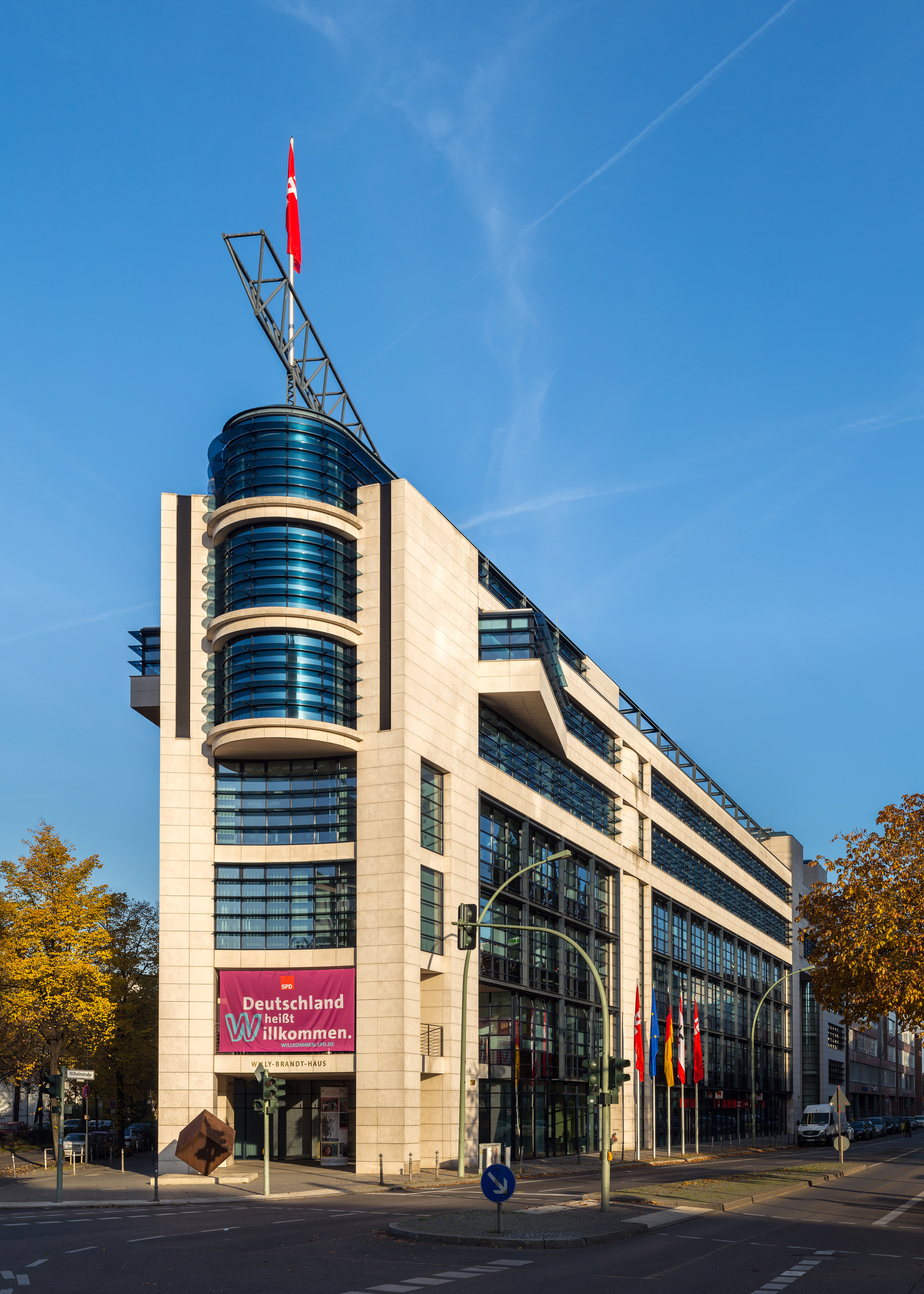 The Willy-Brandt-Haus, Wilhelmstraße 140, 10963 Berlin, as seen from south. Since 1996 it is the seat of the German Social Democratic Party (SPD). It is located in the district of Kreuzberg at Wilhelmstrasse / Stresemannstraße. It was built by the architect Prof. Dr. Helge Bofinger.